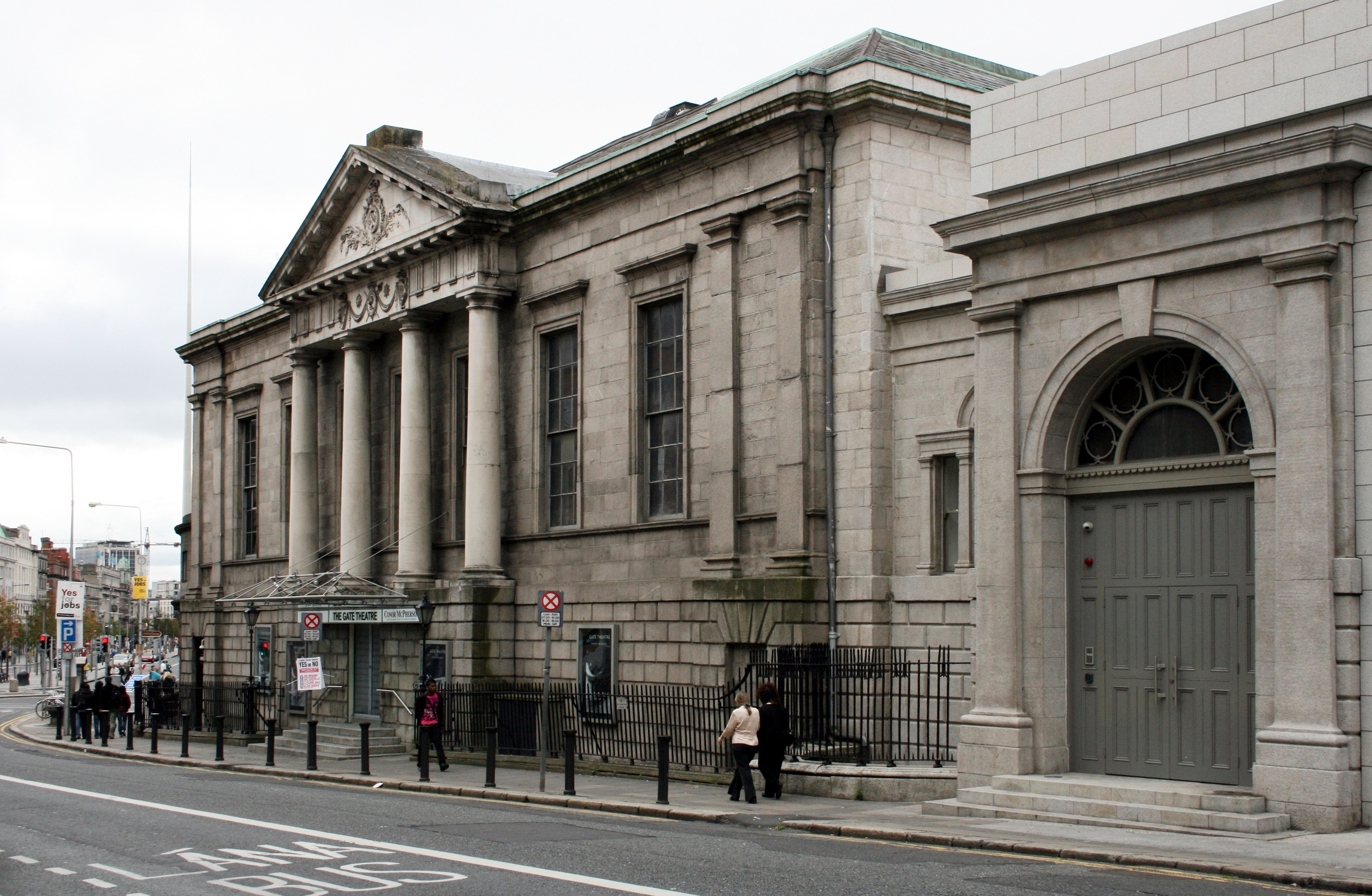 Ireland, Dublin: The Gate Theatre; founded in 1928